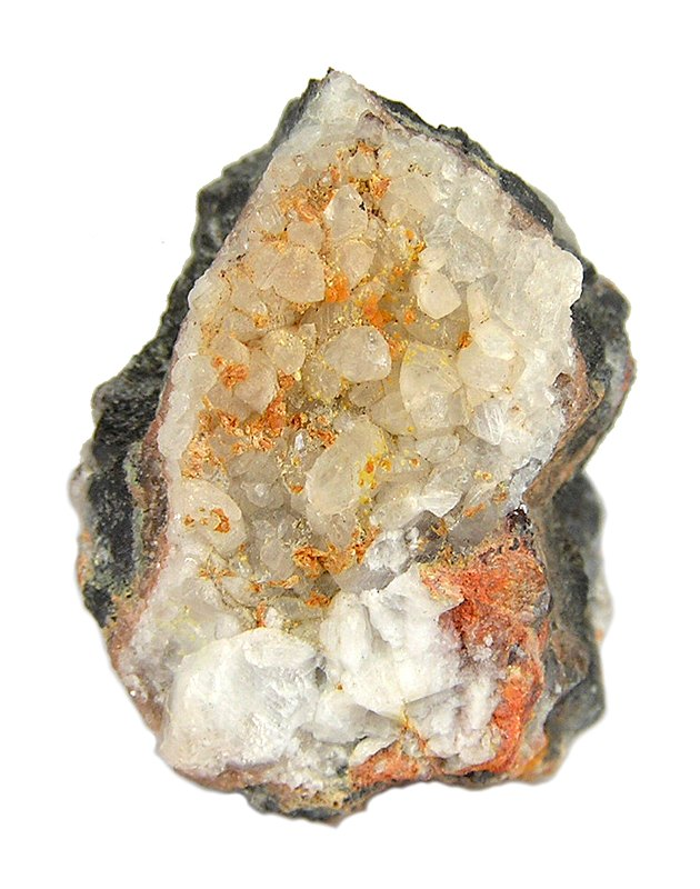 Montroydite Locality: Mariposa Mine (California Mountain Mine), Terlingua District, Brewster County, Texas, USA (Locality at ) Size: thumbnail, 2.7 x 2.2 x 1.5 cm Montroydite A VERY RICH and unusually large specimen of montroydite, a rare Terlingua mercury mineral! The piece has a thick vein running through it, and is rich with microcrystals on attractive contrasting calcite. The dark red is the montroydite and the orange mineral is kleinite. Edgar Bailey was a noted mineralogist and field collector of Terlingua minerals, and the species Edgarbaileyite is named after him in honor. This is from his collection and was self-collected by him, part of a suite of such pieces (not from Feinglos coll.)